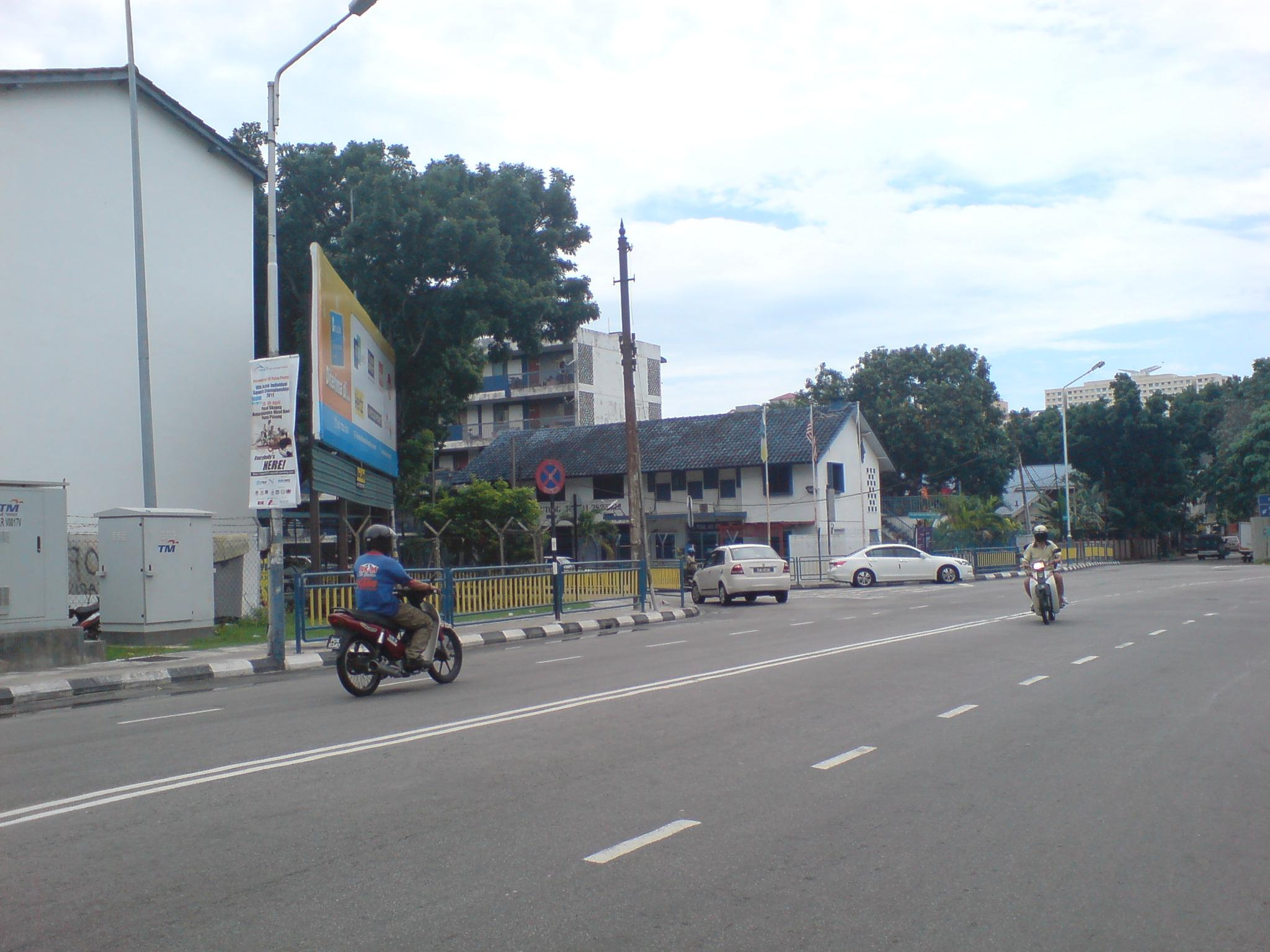 Junction Near Police Station